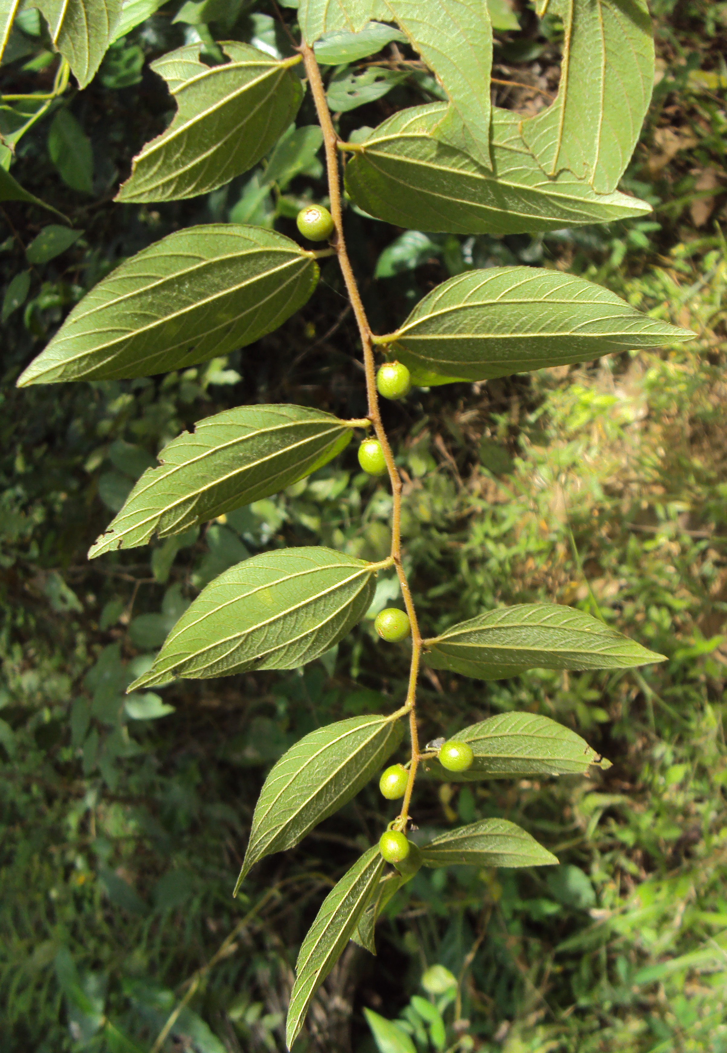 Ziziphus oenoplia